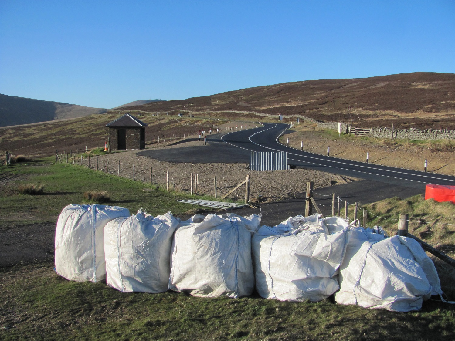 Description : Keppel Gate, A18 Mountain Road: Source : 11th Milestone at en.wikipedia Permission See below